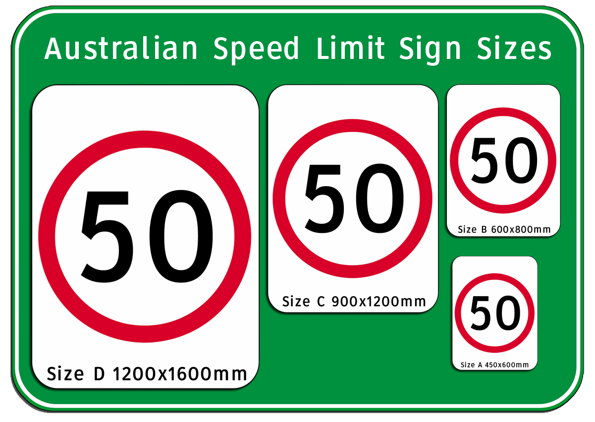 Australian Speed Limit Sign Sizes permitted for use under Australian Standard 1742.4